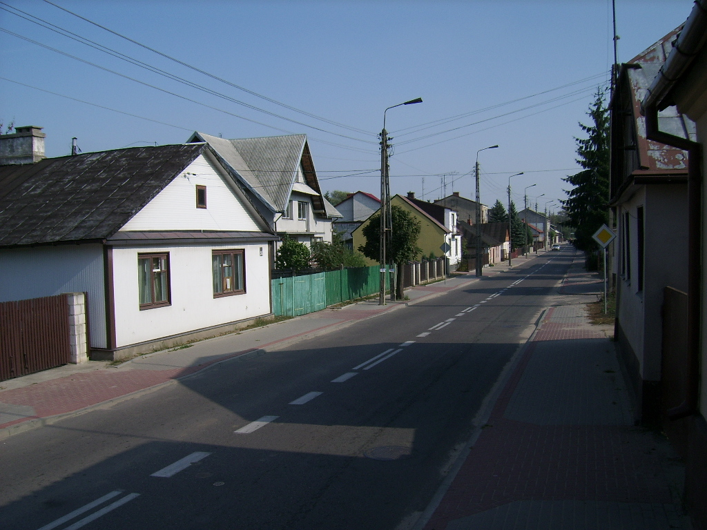 Długa street in Żelechów, Poland